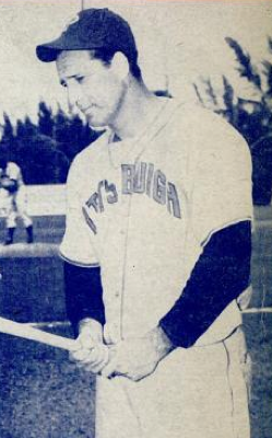 Pittsburgh Pirates first baseman and Hall of Famer Hank Greenberg in a 1947 issue of Baseball Digest.